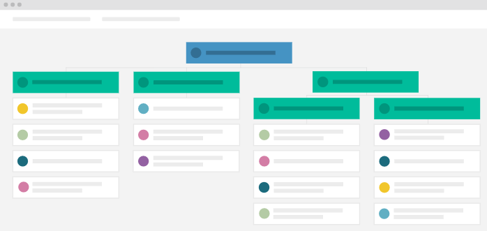 project structure tree - abstract visualisation of a project structure in factro; complex relations are clearly arranged; visualisation of Schuchert Managementberatung GmbH & Co. KG from 13.01.2018, by management permission I allow the usage according to CC-BY-SA 4.0, Bochum, 22.07.2019, ppa. Klaus Uhlmann